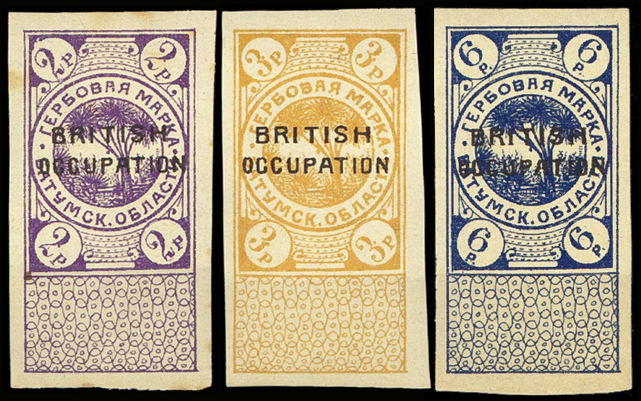 Revenue stamps of Batum overprinted due to British occupation, 1920